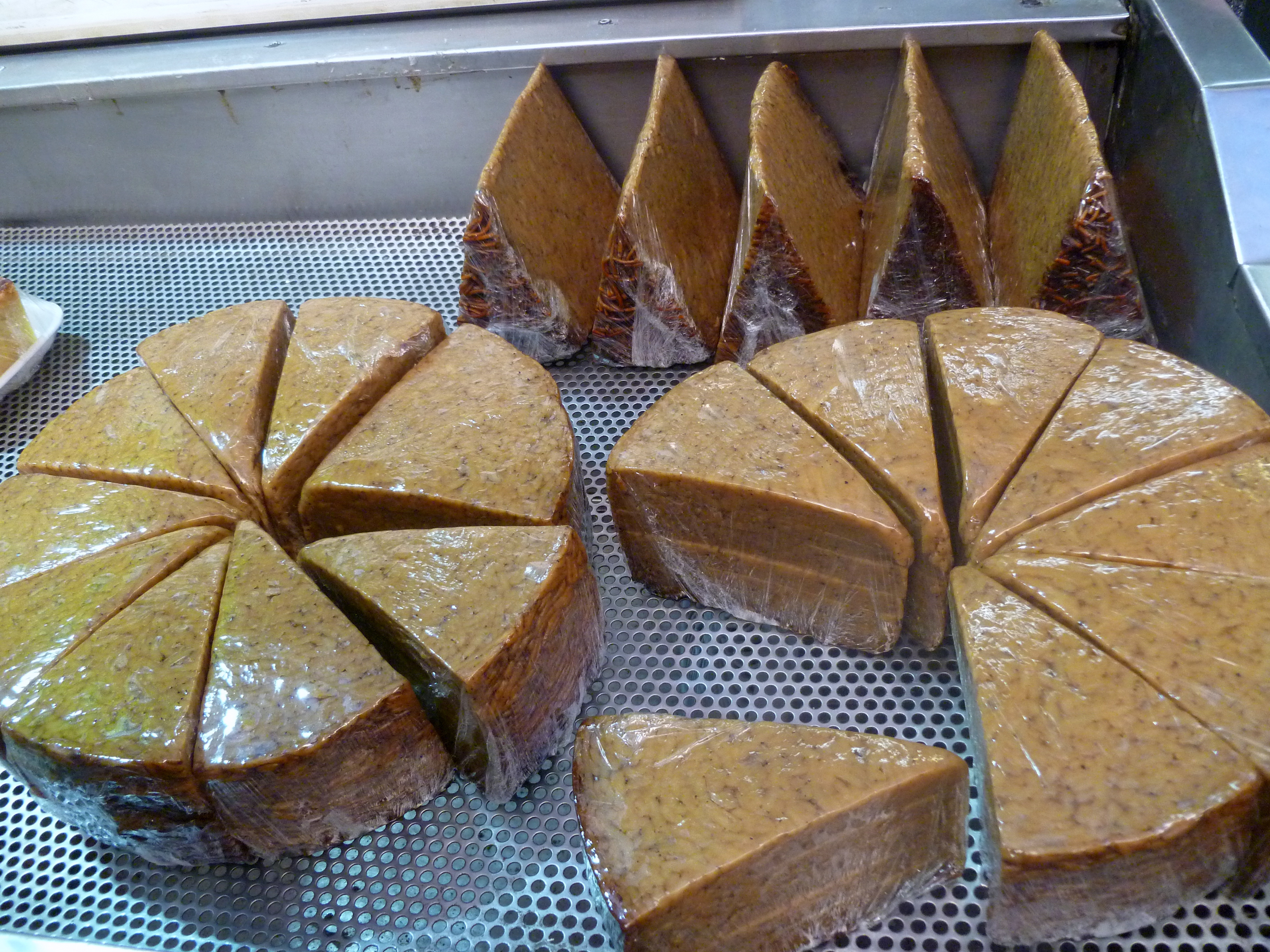 Cities in Israel